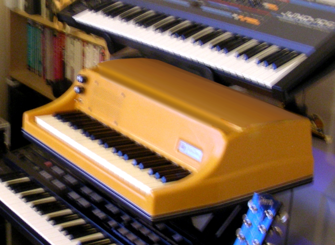 Wurlitzer 106 (classroom piano) Note: controllers at left side are later addition External links “Elektrostaticky snímané nástroje”, pp.150 (photograph of Wurlitzer EP-106) YouTube - Wurlitzer Electric Piano Rare 106 Model YouTube - Wurlitzer Electric Piano Rare 106 Tan Top